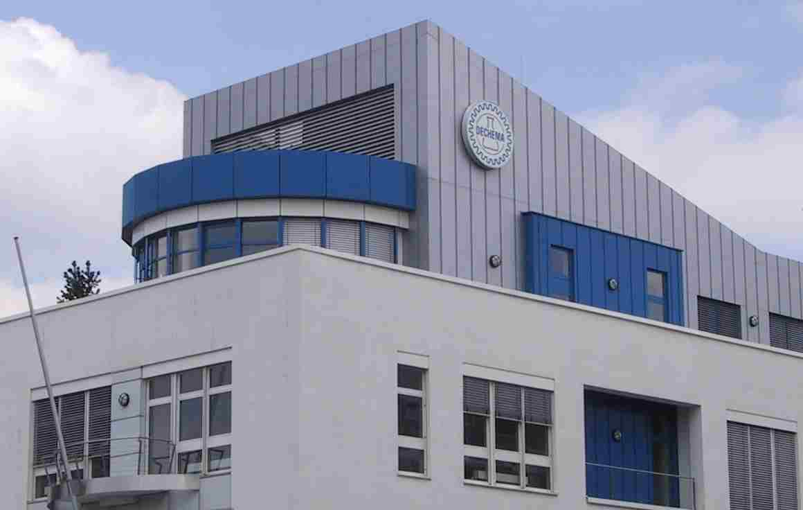 Building of DECHEMA e.V. in Frankfurt am Main